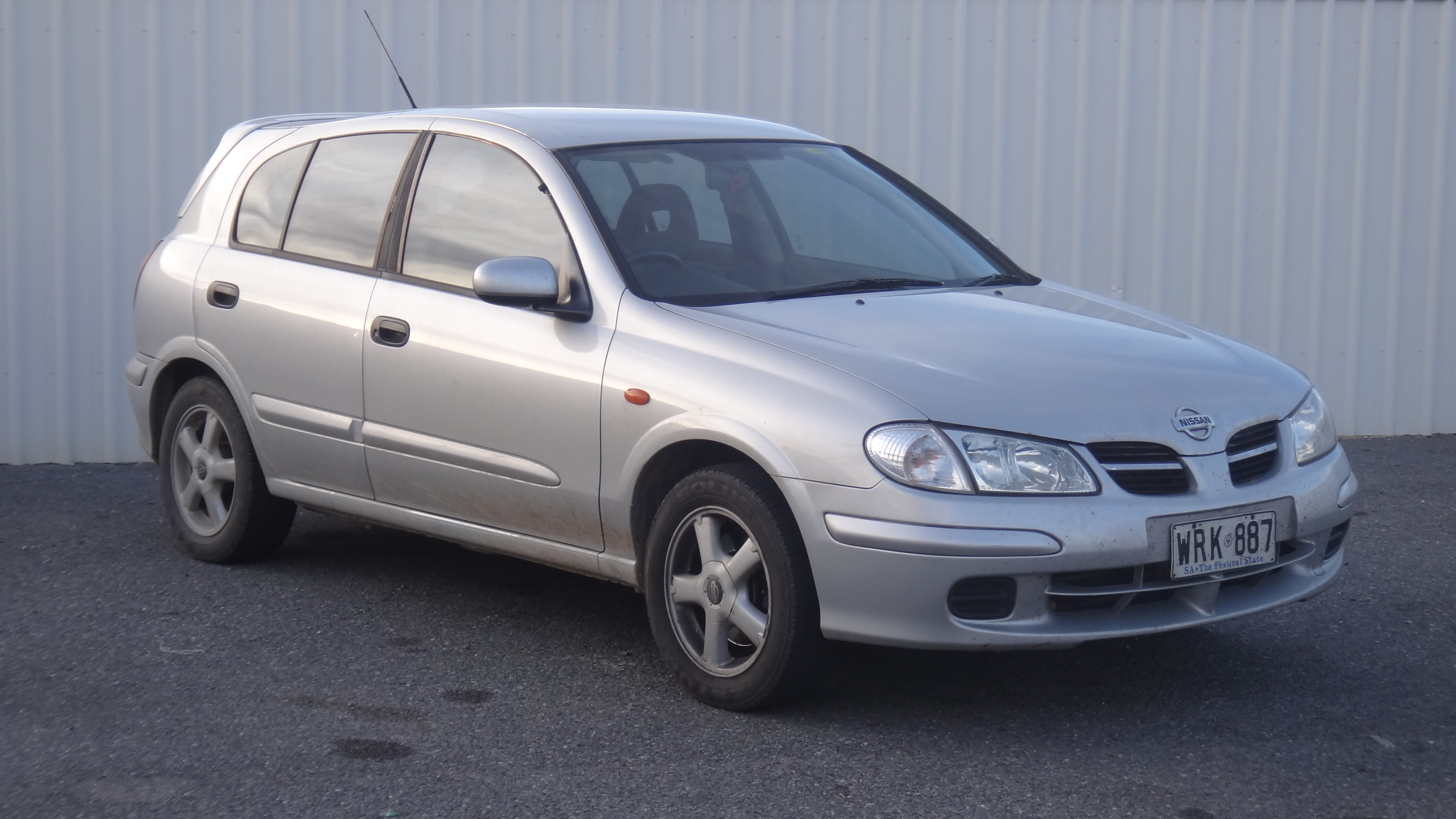 While the Pulsar sedans were imported from Japan, the Pulsar hatch arrived here from the UK, with its Euro face and not the ASEAN face on the Pulsar sedan. These were also sold in Europe and the UK as the Nissan Almera.